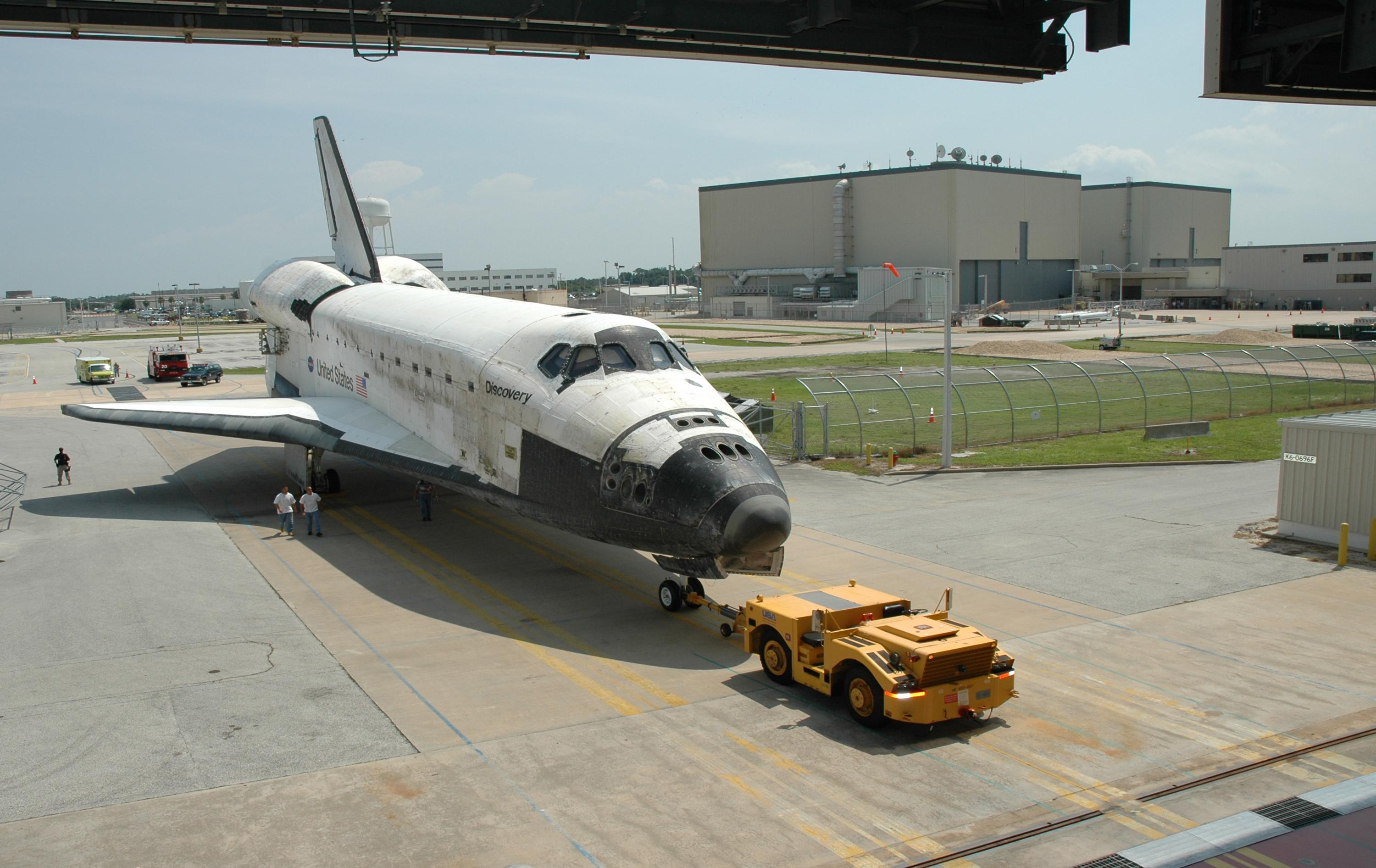 Discovery back at Kennedy Space Center after STS-114 mission (Aug 22, 2005) original description: Discovery is towed into the Orbiter Processing Facility bay 3. Discovery was returned to NASA Kennedy Space Center on a ferry flight atop the Shuttle Carrier Aircraft (SCA) from Edwards Air Force Base in California, arriving Aug. 21. Discovery will be towed to the Orbiter Processing Facility where the Multi-Purpose Logistics Module Raffaello still inside will be removed from the payload bay and transferred to the Space Station Processing Facility. The orbiter will then begin processing for the second Return to Flight mission, STS-121, scheduled for launch no earlier than March 2006.